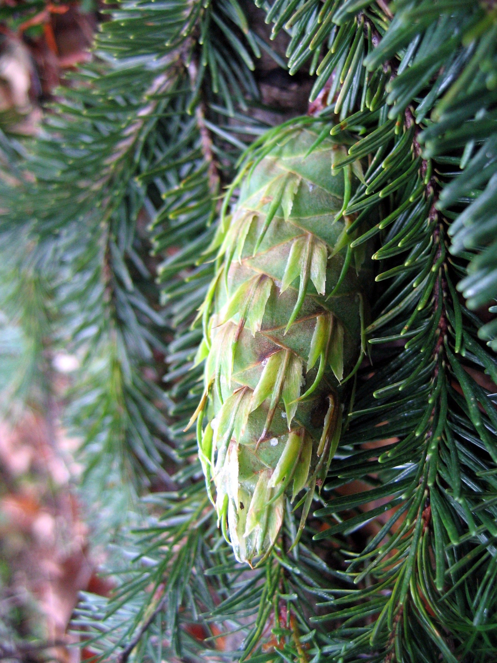 Douglas-fir (Pseudotsuga menziesii subsp. menziesii) young cone, tree cultivated in the forest east to Łazy, area of the nature reserve "Łazy", Poland.